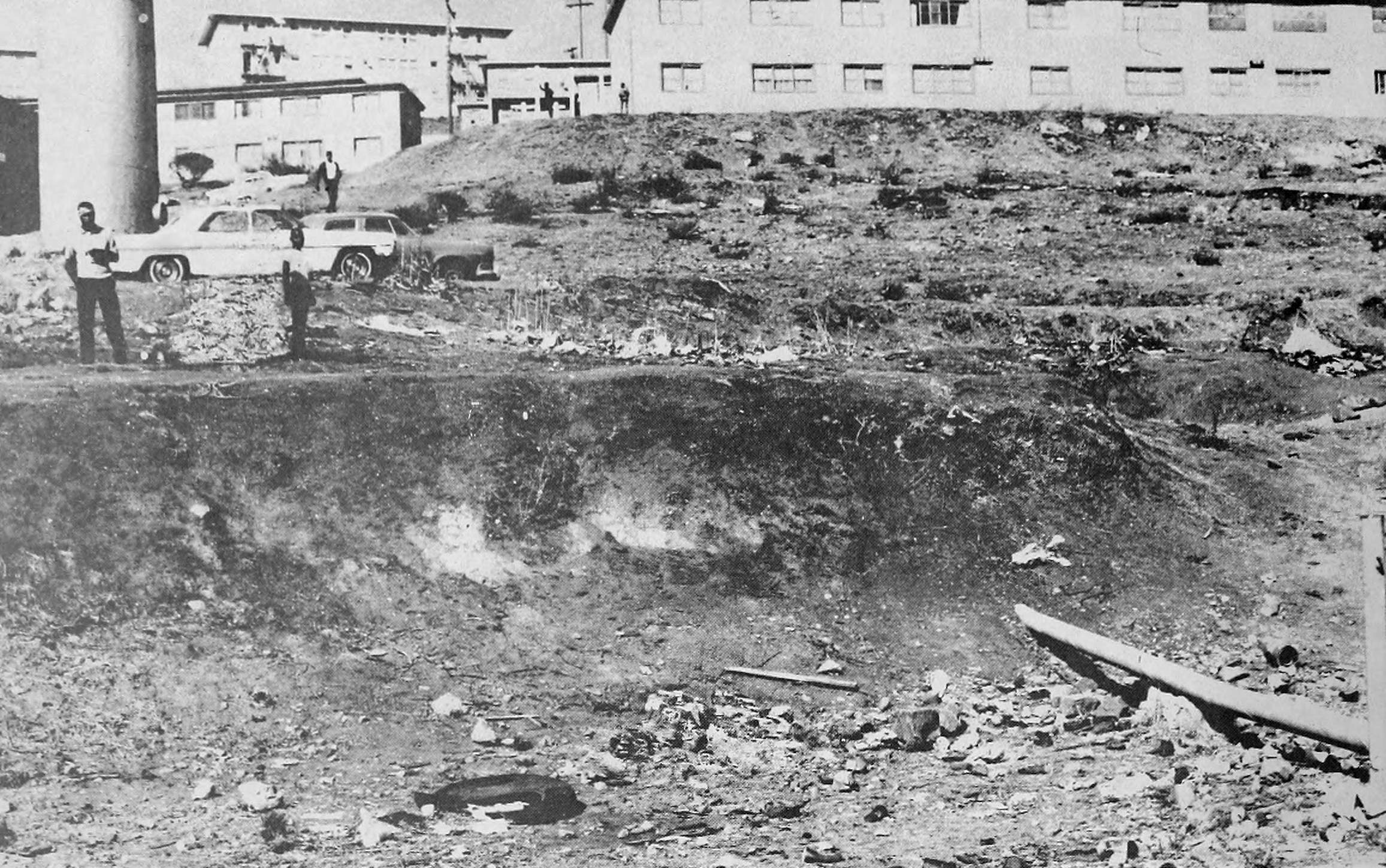 Page 140 from the "128 Hours" report.